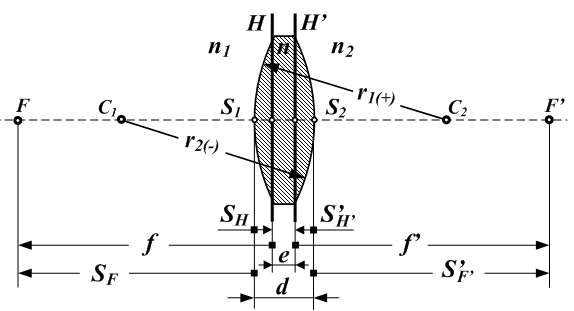 Thick lens diagram. d=center lens thickness; r1=radius of curvature of the first surface; r2=radius of curvature of the second surface; H=primary principal plane; H′=secondary principal plane; F=front focal point; F′=back focal point;S1=vertex of the first optical surface; S2=vertex of the second optical surface; SH=distance from the vertex of the first optical surface to the primary principal plane; S′H′=distance from the vertex of the second optical surface to the secondary principal plane; SF=distance from the surface of the first optical surface to the front focal point, called the front focal distance; S′F′=distance from the vertex of the second optical surface to the back focal point; C1=center of a hypothetical sphere whose radius (r2) is always perpendicular to the surface S2; C2=center of a hypothetical sphere whose radius (r1) is always perpendicular to the surface S1; f=effective front focal length; f′=effective back focal length.